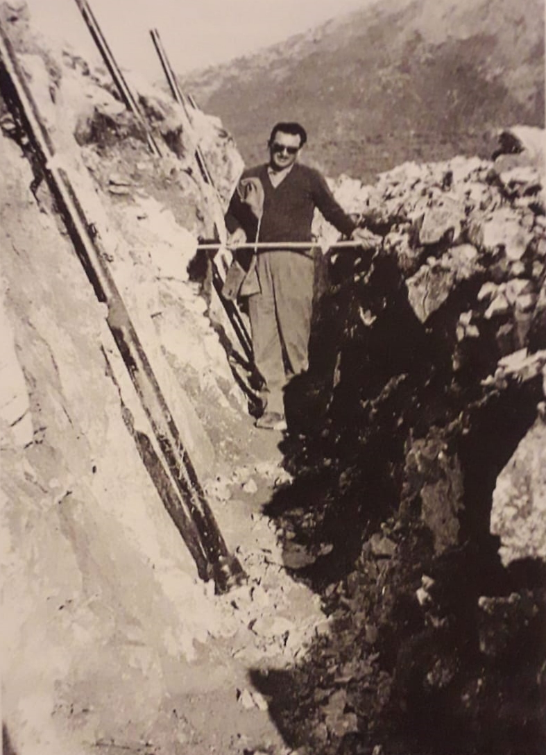 Benito Stirpe, Italian businessman, on the Aurunci aqueduct construction site